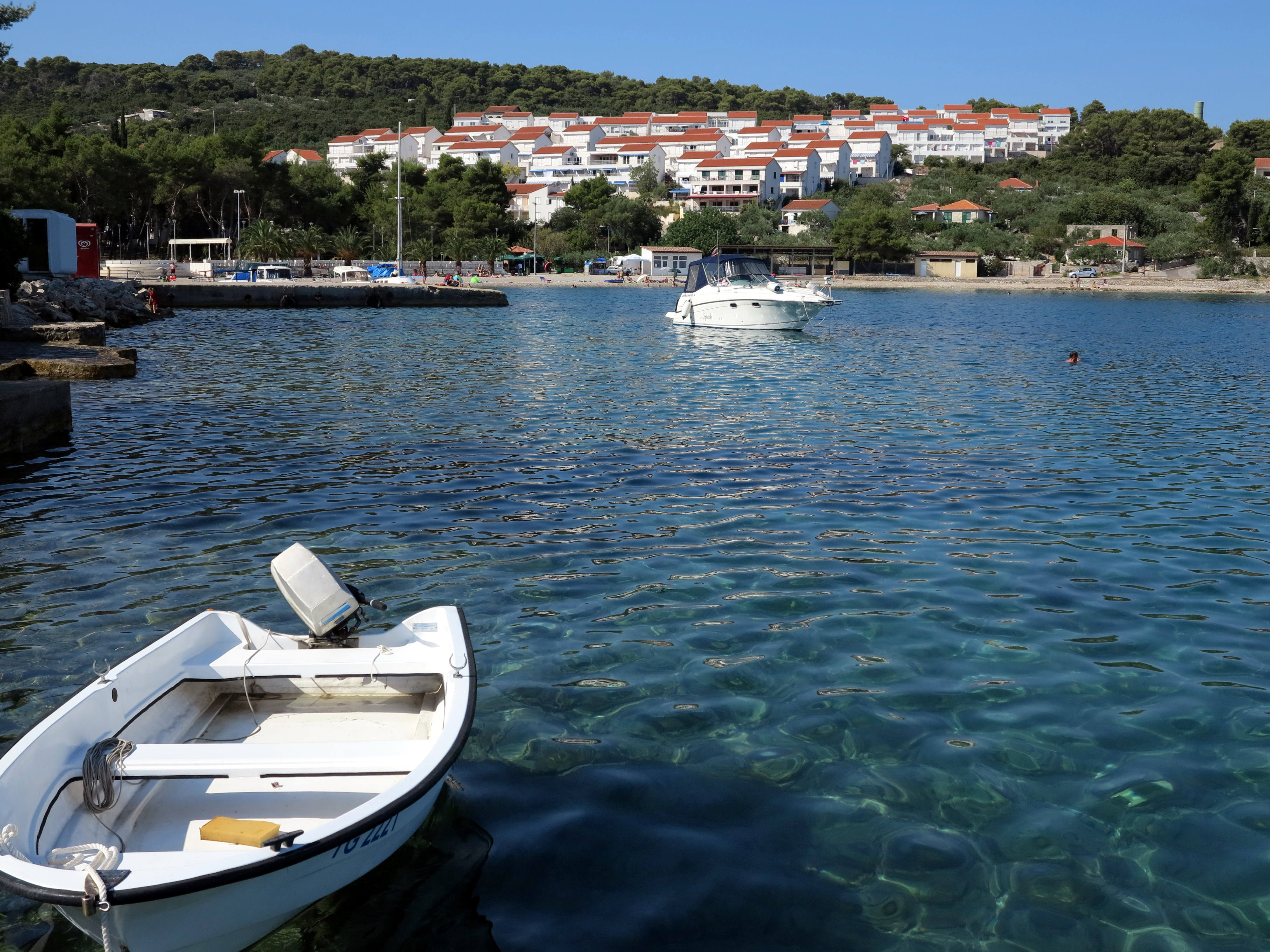 Apartment settlement in Nečujam / Šolta / Croatia / Adriatic Sea.